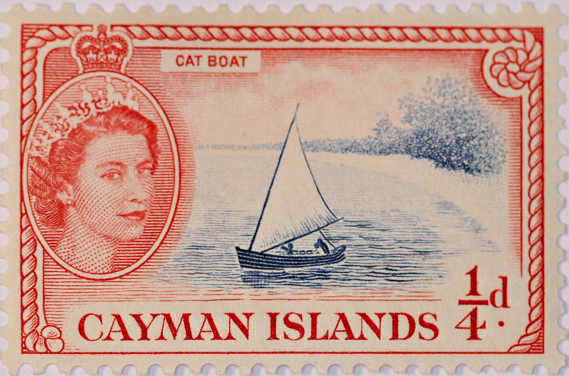 1955 1/4d (one farthing) stamp illustrating the Catboat with Queen Elizabeth portrait.